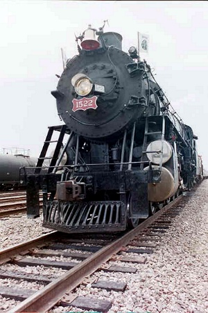 St. Louis-San Francisco Railway #1522, photographed in Arkansas City, during its excursion career.